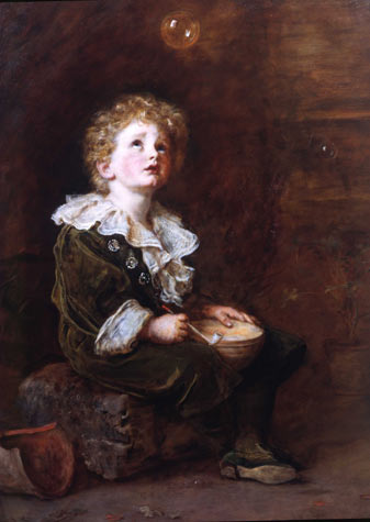 Bubbles, a painting by Sir John Everett Millais; the subject his grandson, William Milbourne James